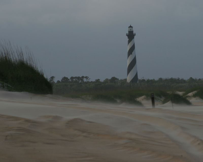 Cape Hatteras Lighthouse from beach (Buxton, Outer Banks, North Carolina, United States)